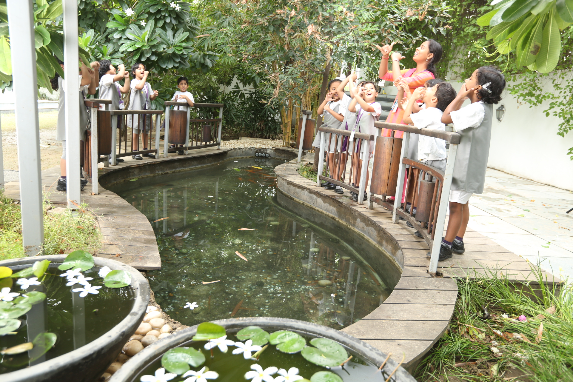 Fish Pond at MatriKiran School, Gurgaon